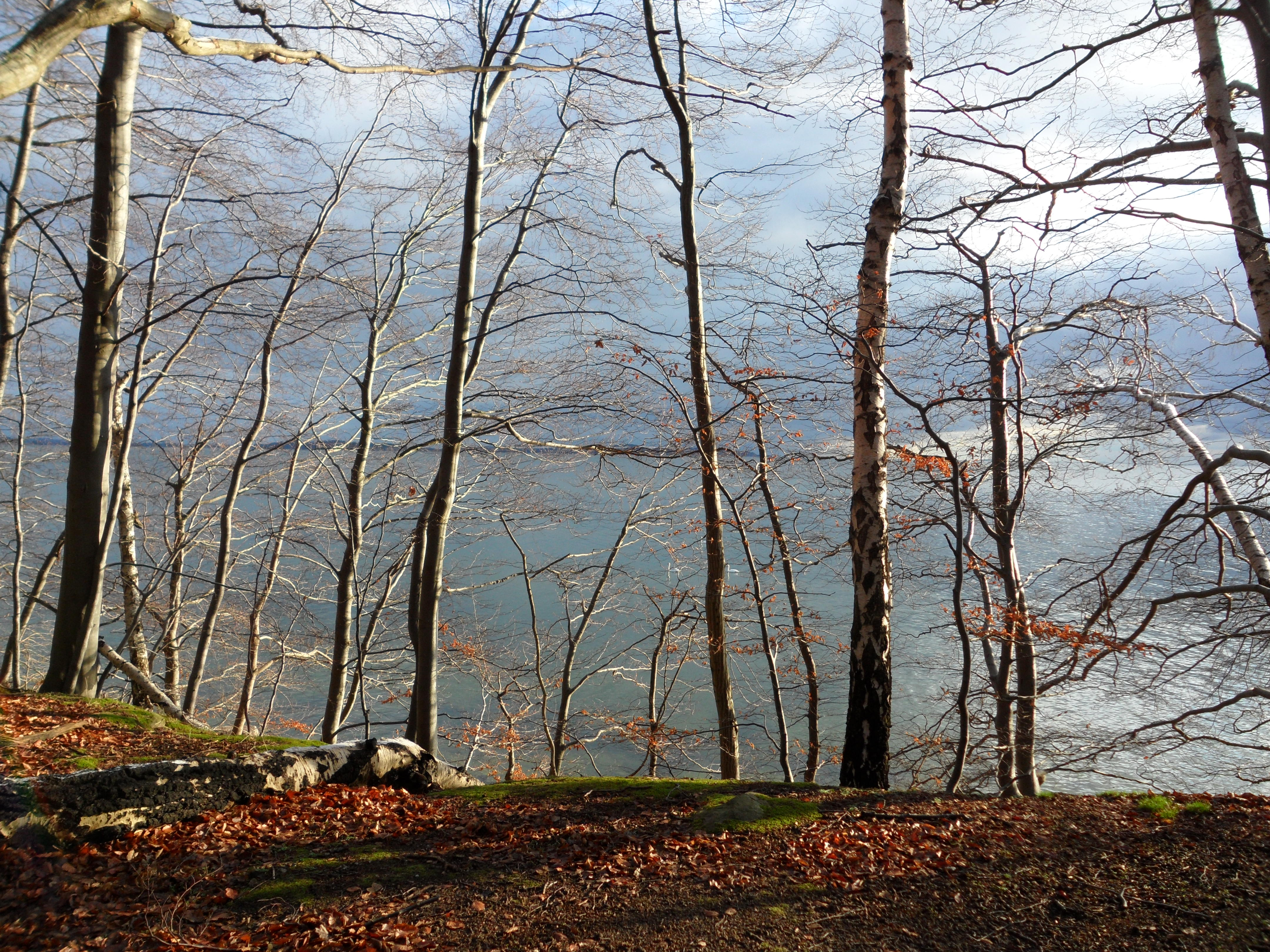 Forest close to the cliff on island Vilm